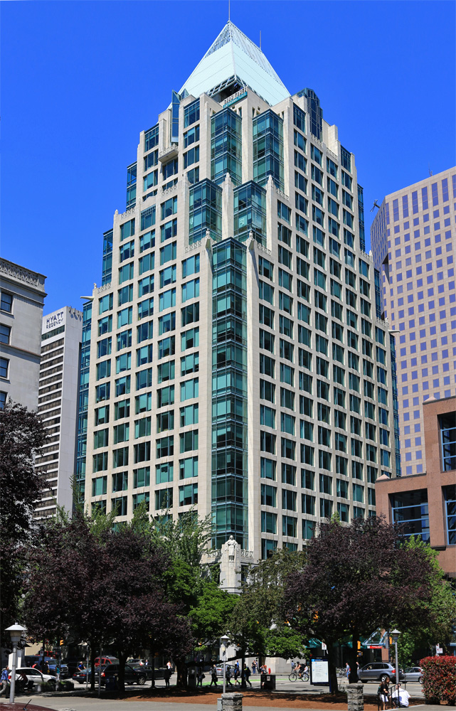 Cathedral Place office tower in Vancouver.